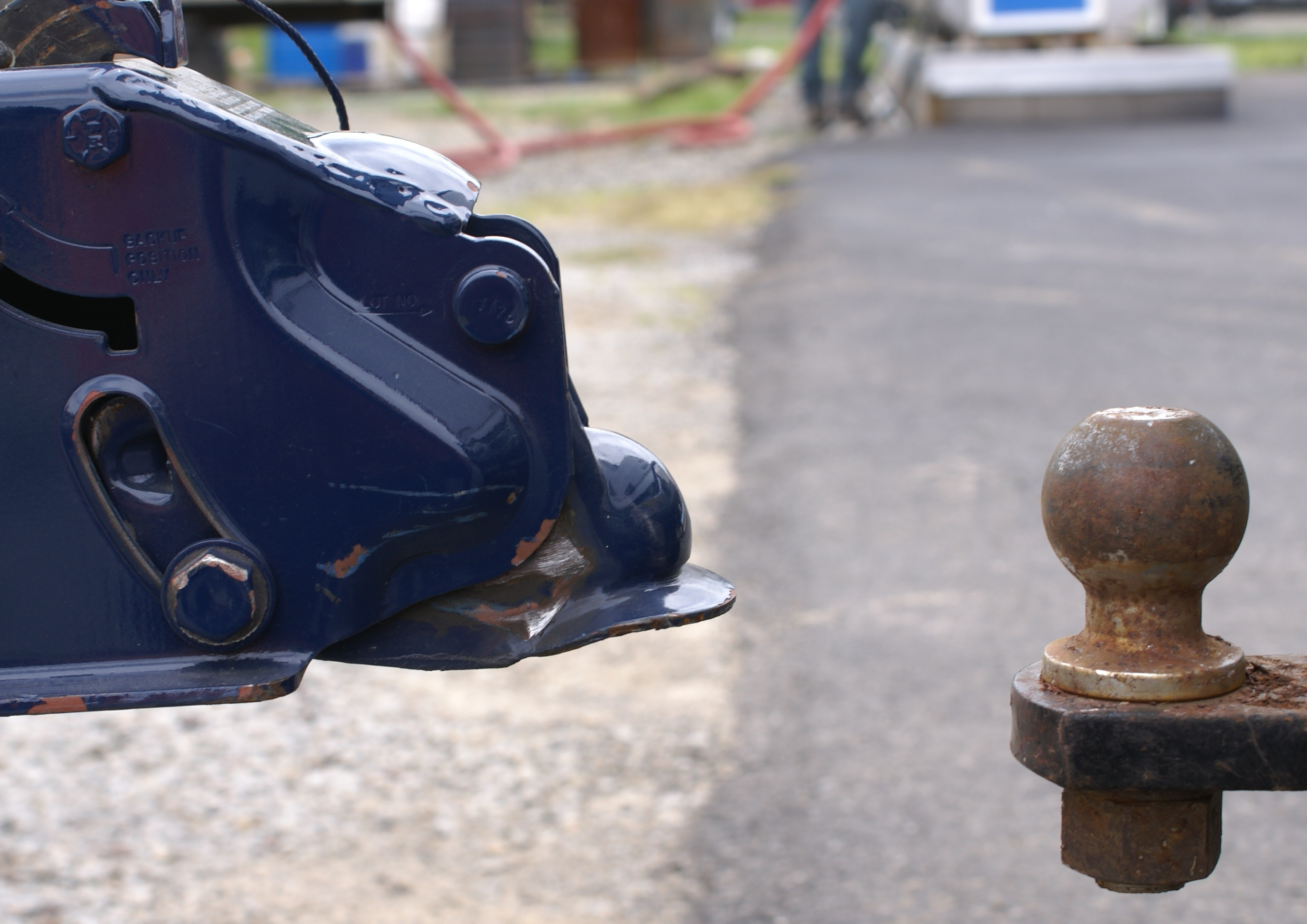 Just. No. Way.